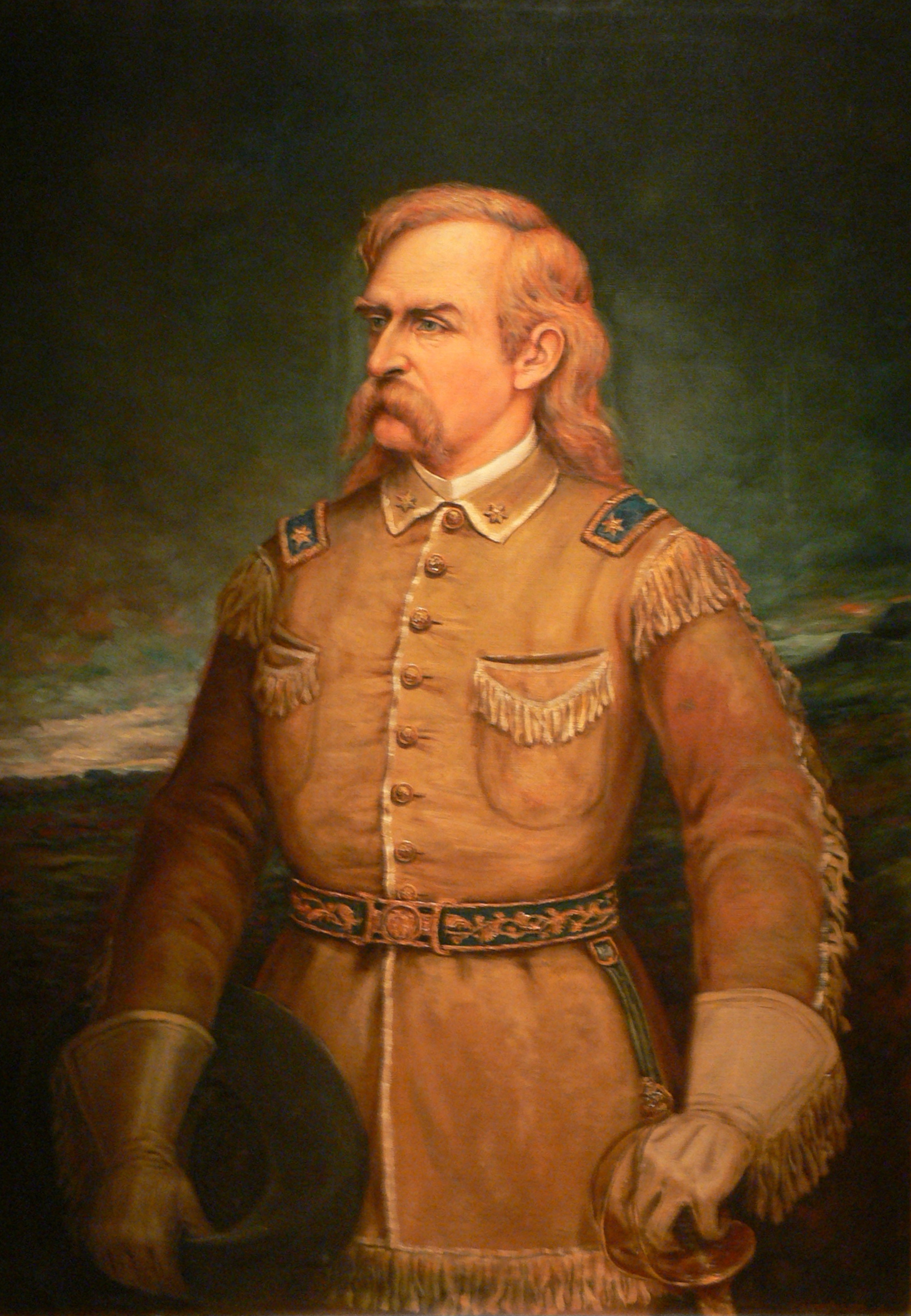 Tulsa, Oklahoma. Gilcrease Museum: Painting of General Custer